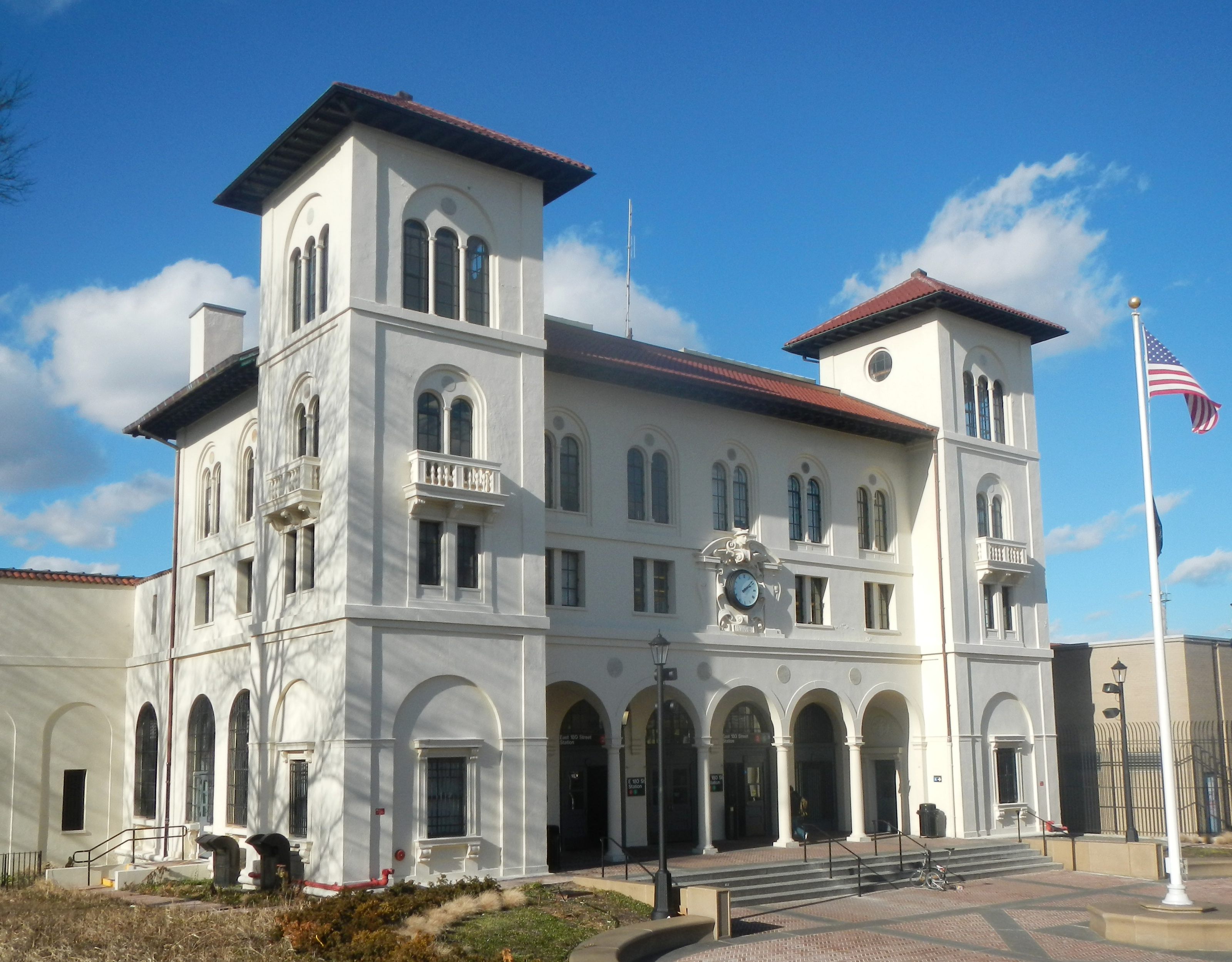 Looking north at station on a sunny early afternoon.